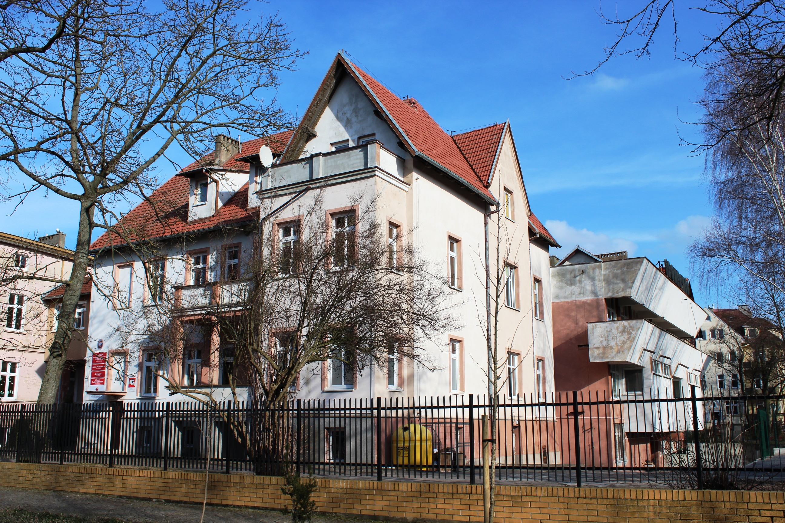 Słoneczko Children Sanatorium in Kołobrzeg